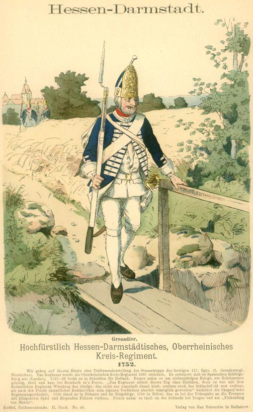 Hessen-Darmstadt. Hochfürstlich Hessen-Darmstädtisches, Oberrheinisches Kreis-Regiment. 1752